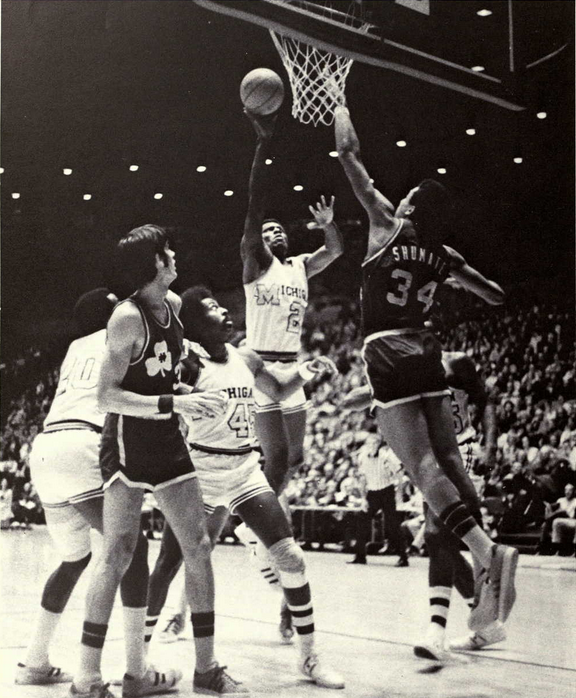 Photograph Henry Wilmore (shooting the basketball)